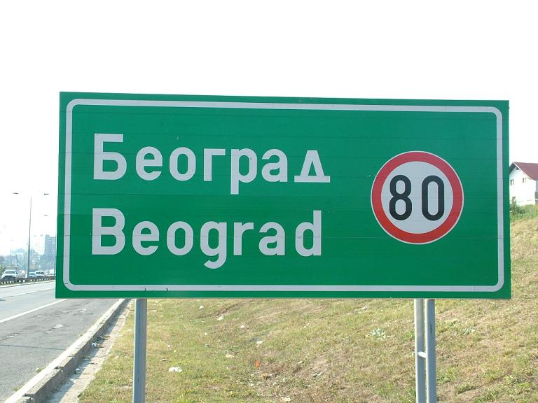 Town sign of Belgrade